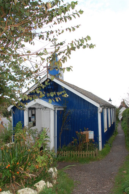 St Mary's parish church, Cadgwith, Cornwall, a "tin tabernacle" building of corrugated iron on a timber frame